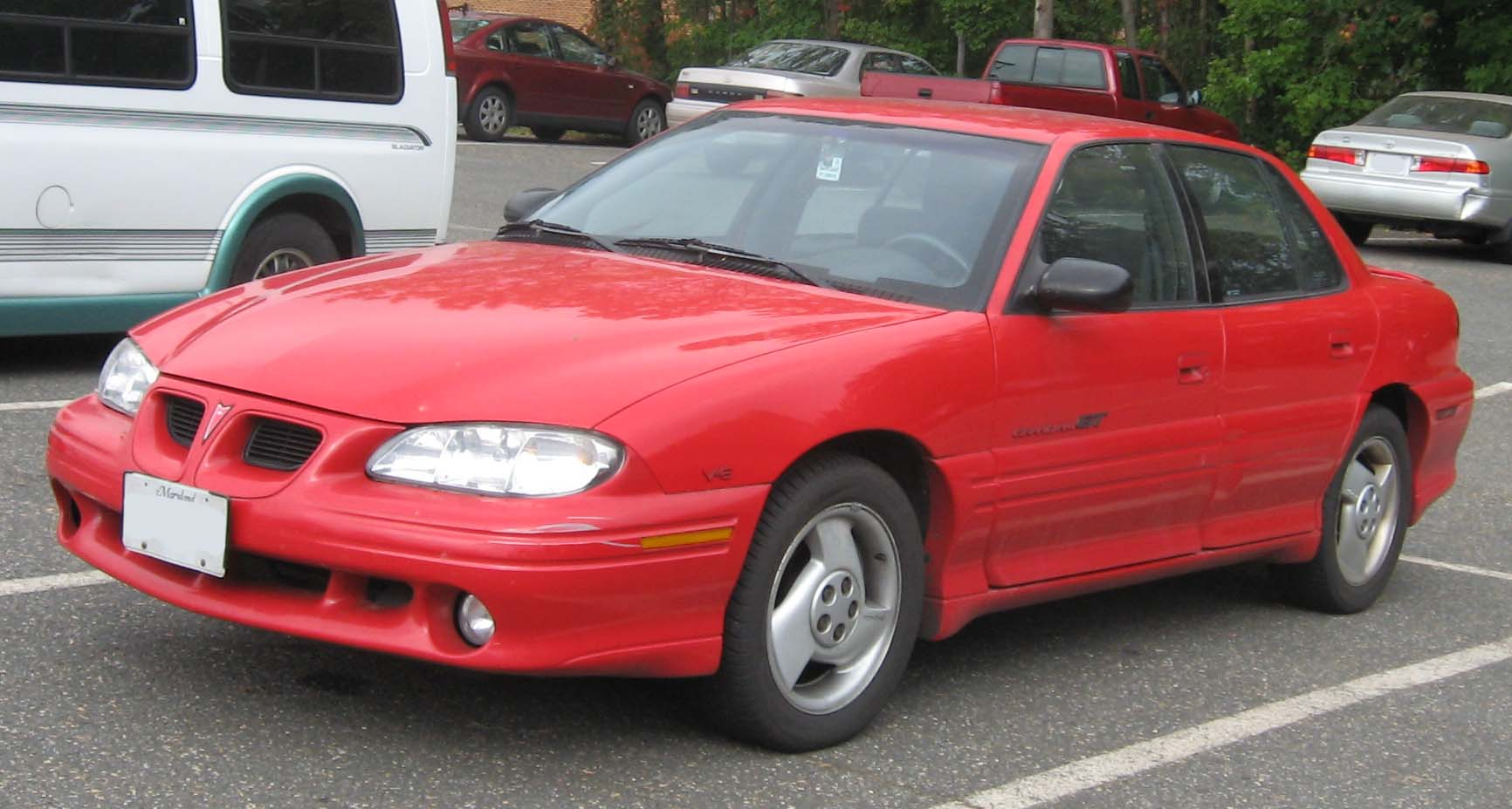 1996-1998 Pontiac Grand Am photographed in College Park, Maryland, USA.